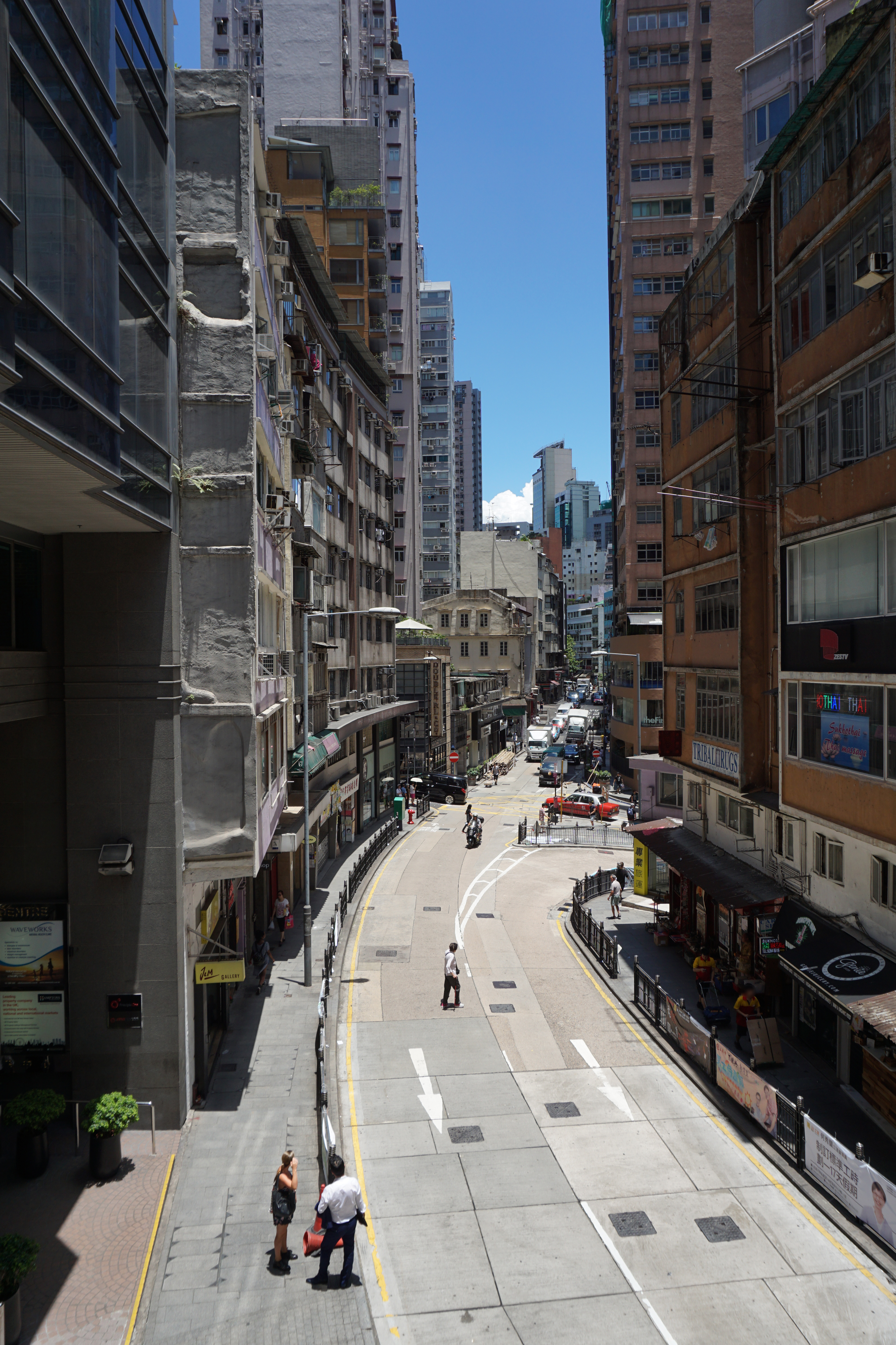 Hollywood Road in Central, Hong Kong.